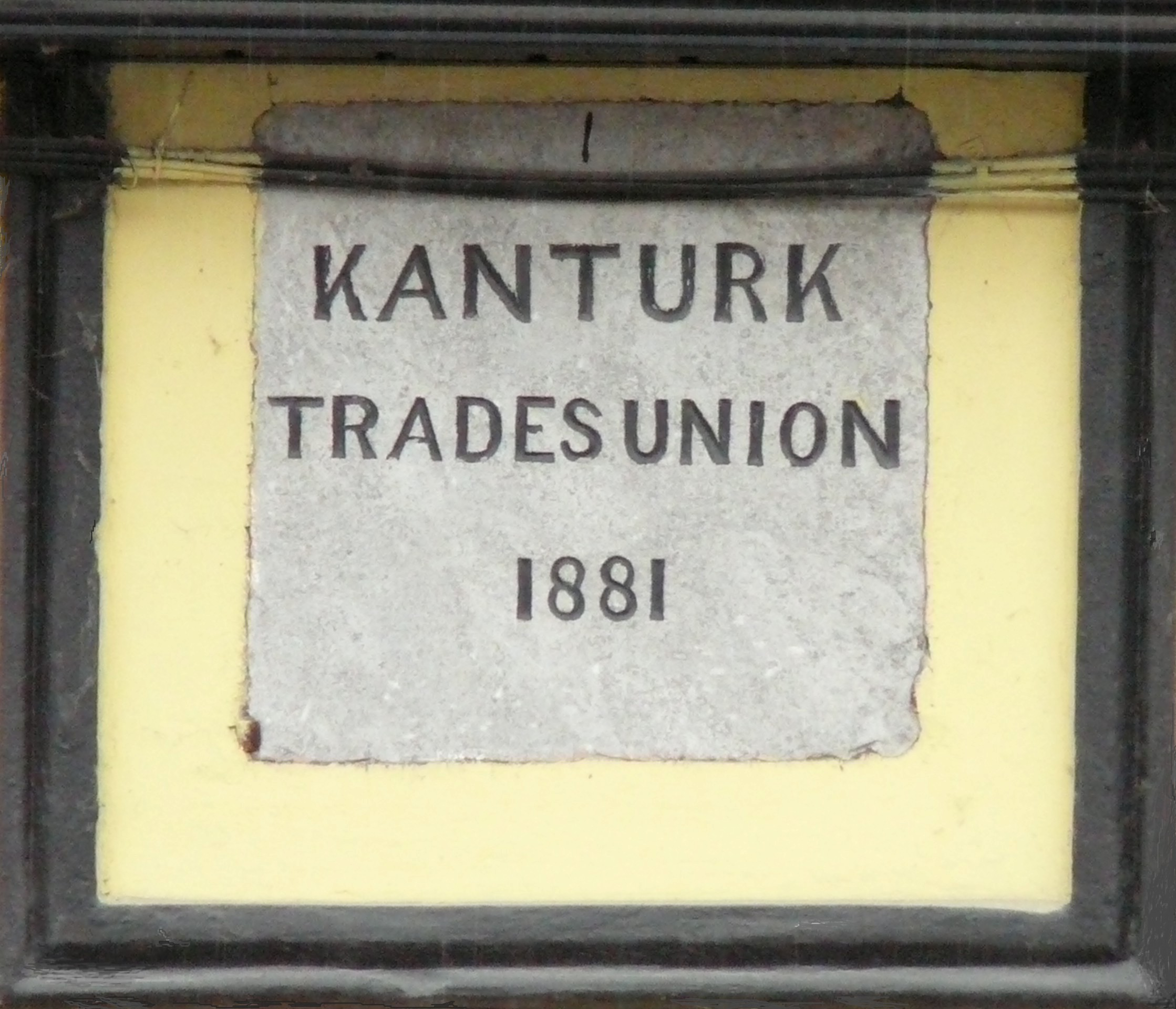 Image of the plaque on the outer wall of the Kanturk Trades Union Hall. One of Ireland's oldest trade union halls, it became a centre of activity for the Irish Land and Labour Association.